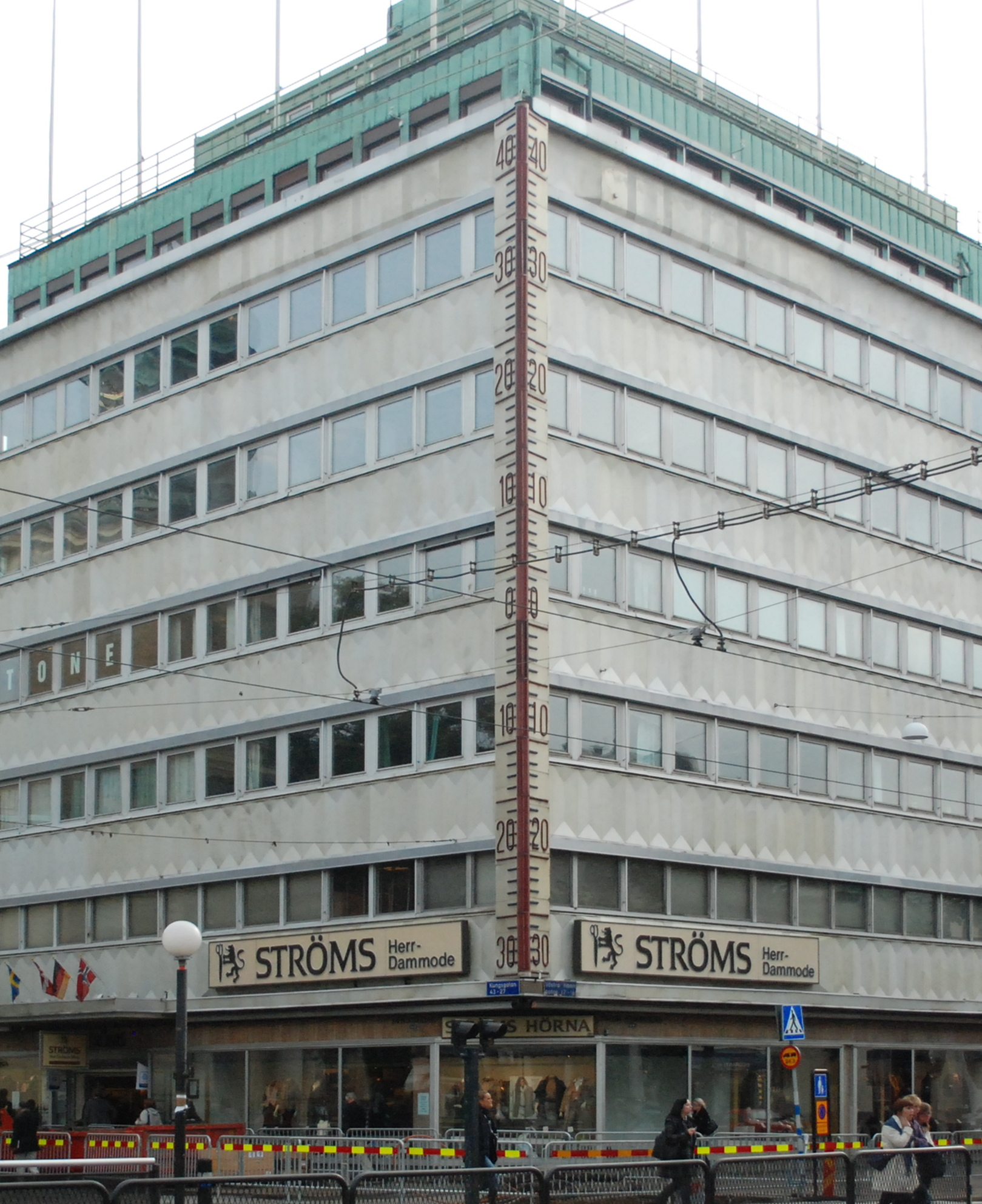 Ströms hörna